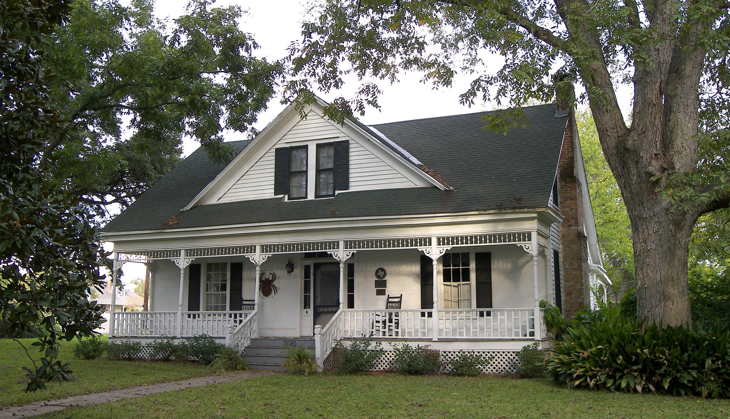 The Isaac Applewhite House located in Chappell Hill, Texas, United States. The house was designated a Recorded Texas Historic Landmark in 1968 and listed on the National Register of Historic Places on February 20, 1985.